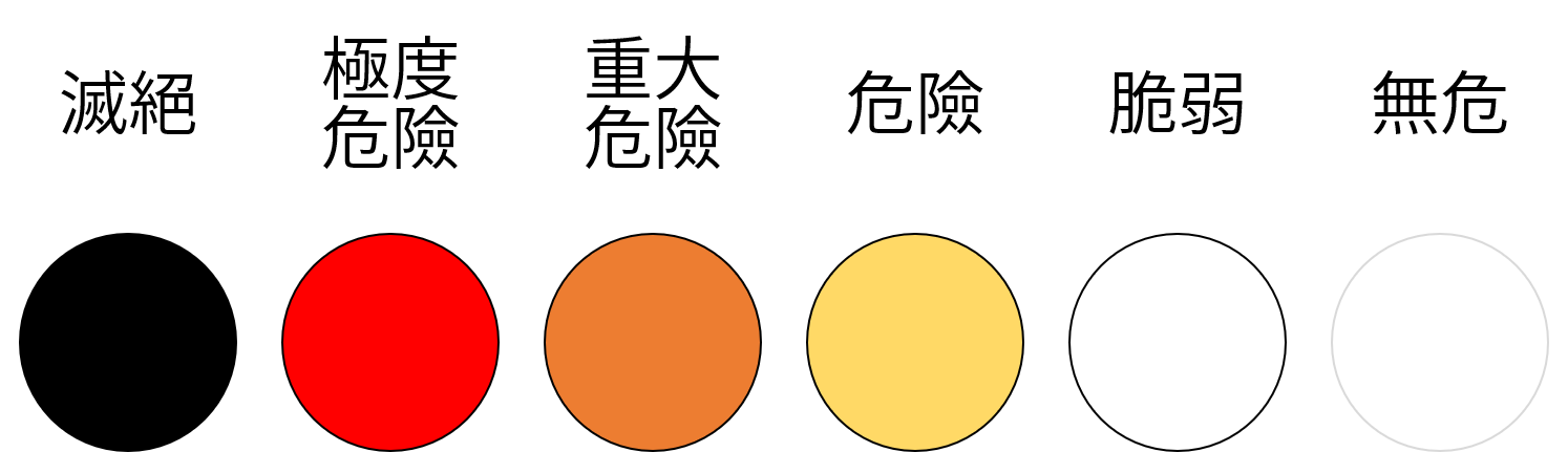 UNESCO Atlas of the World's Languages in Danger, All, Tranditional Chinese